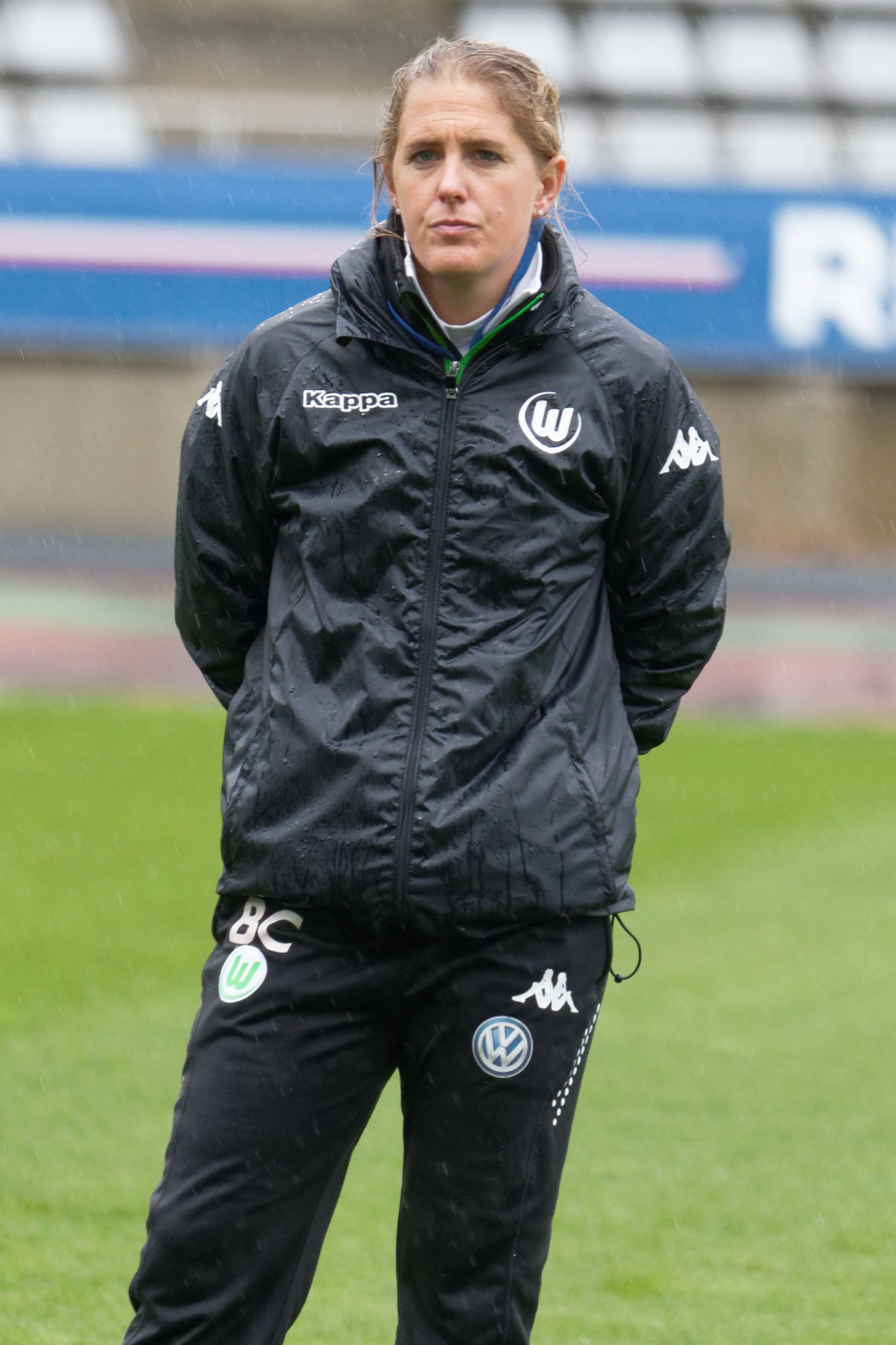 UEFA Women's Champions League, PSG - Wolfsburg, 26 April 2015.